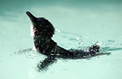 Phillip Island case study image